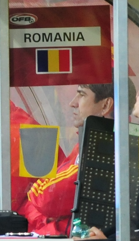 Exhibition game Austria vs. Romania at 5st. June 2012